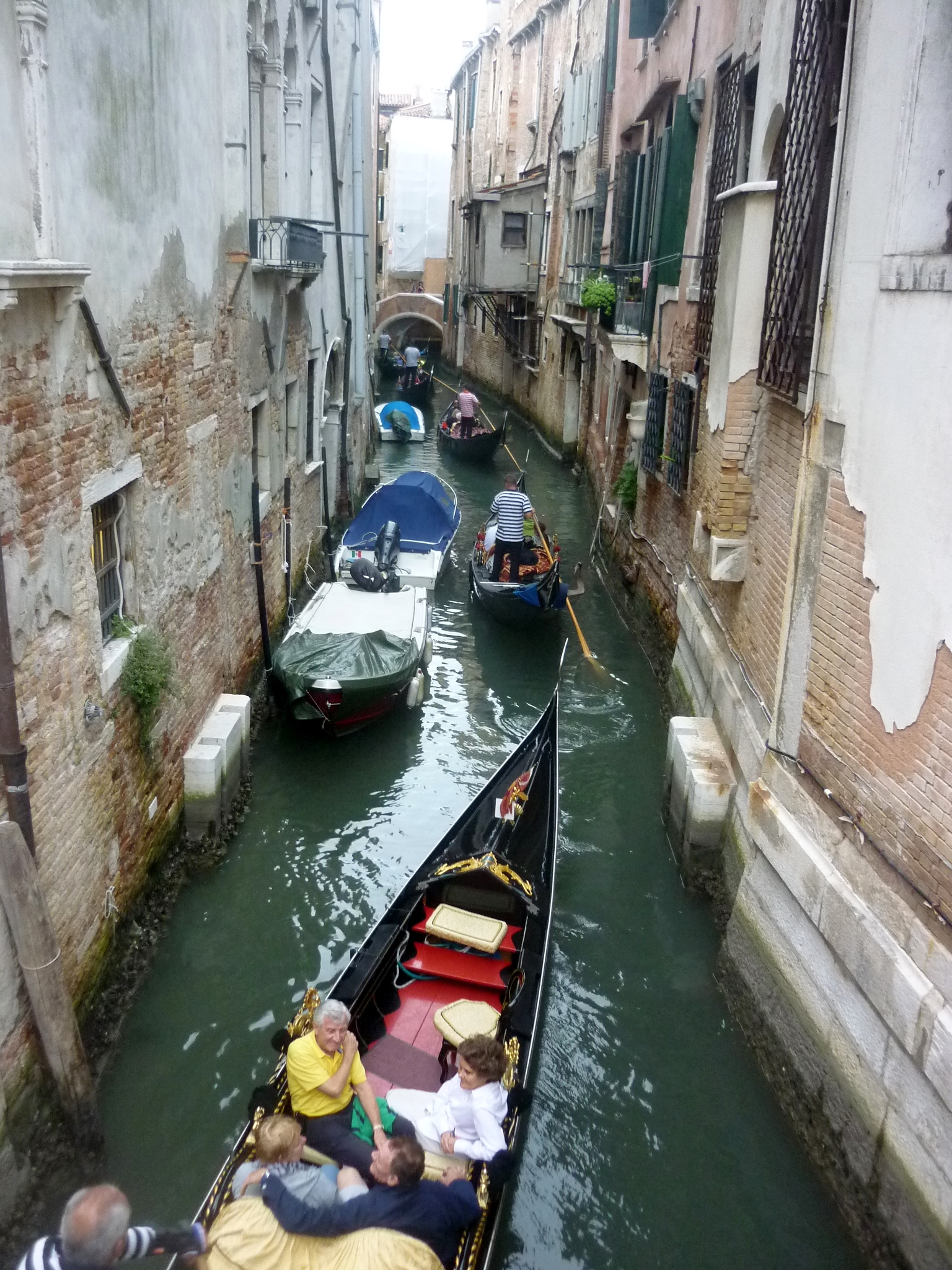 Gondolas in a tight canal in Venice